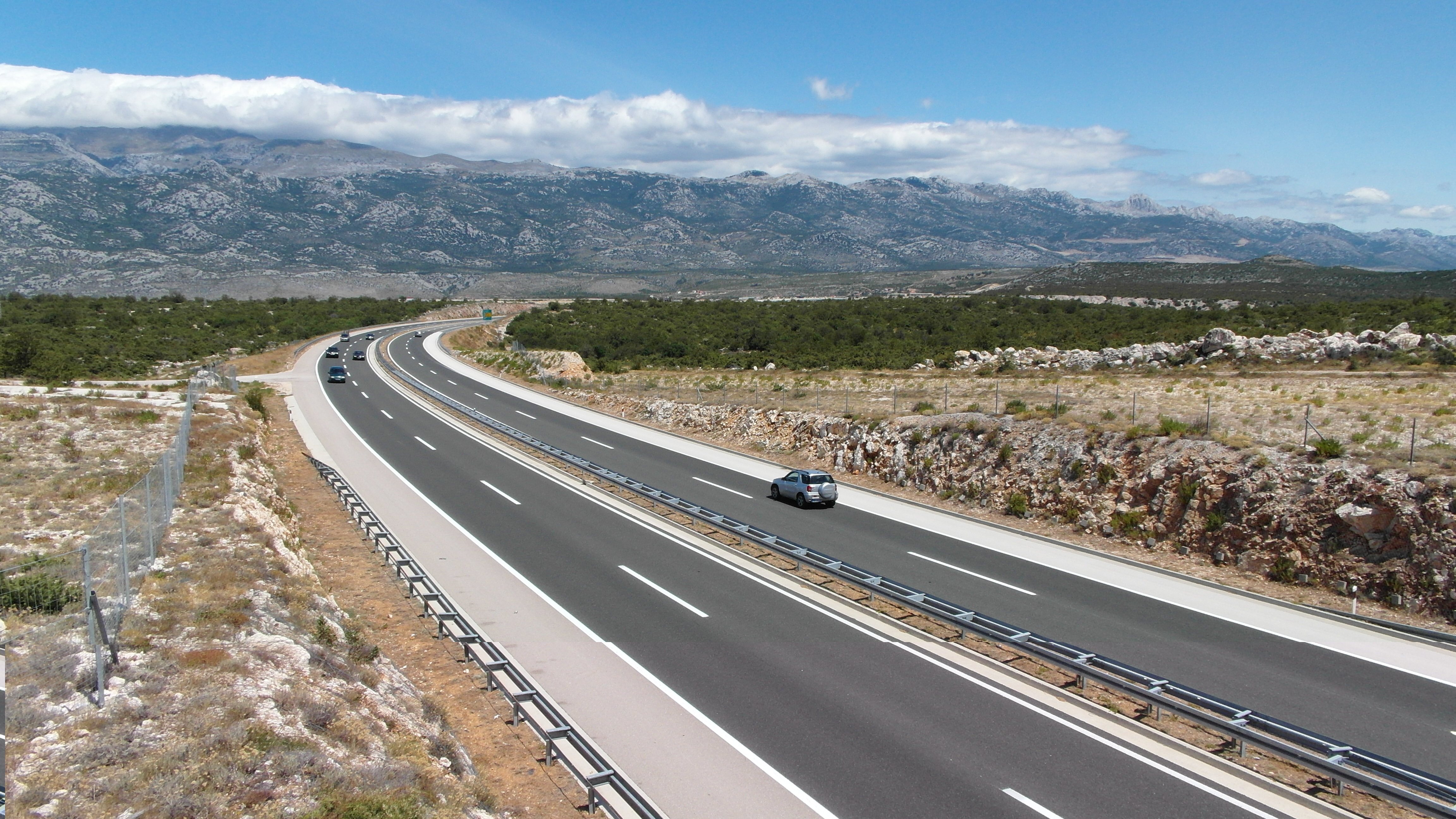 A1 near the junction Maslenica.